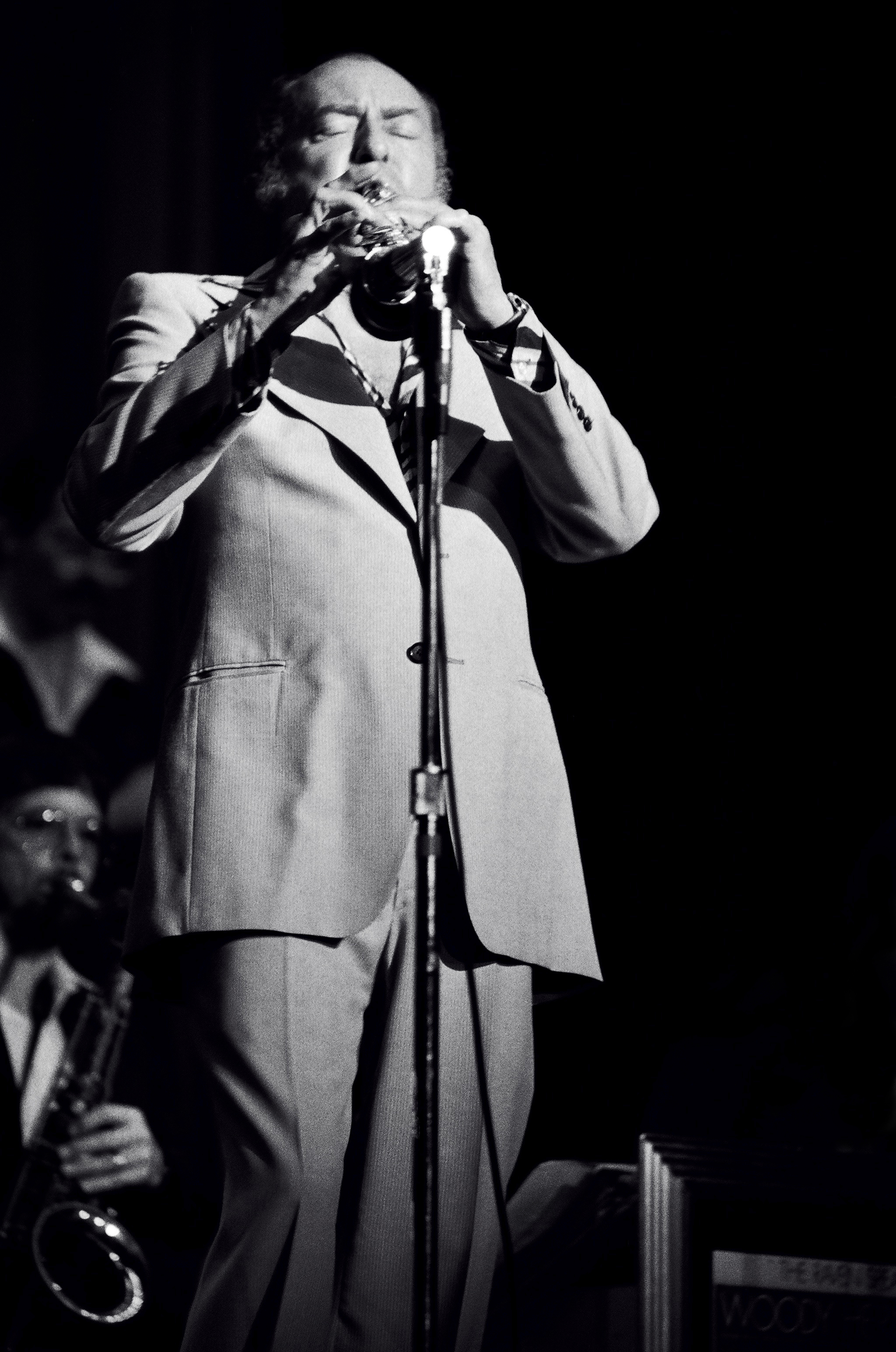 Woody Herman Rochester, N.Y. 1976